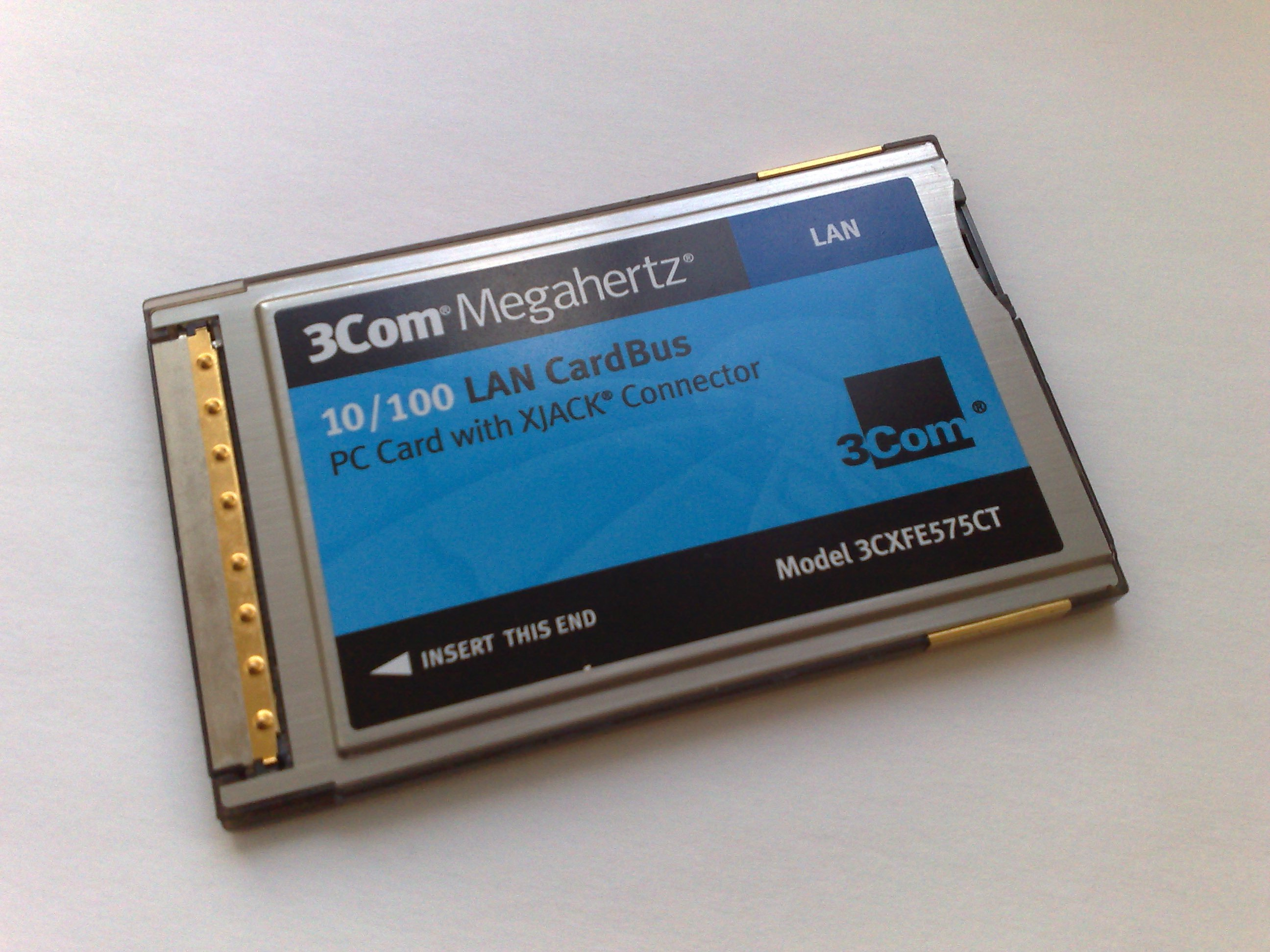 A 3Com 3CXFE575CT 10/100Mbps network card with an XJACK connector (retracted)